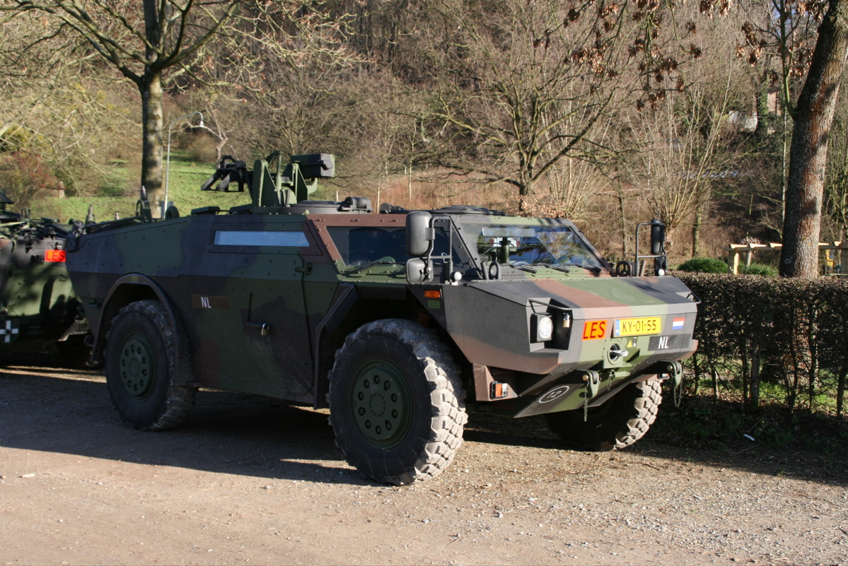 The LSG Fennek, named after the Fennec (a small species of desert fox), is a four wheeled armed reconnaissance vehicle produced by the German company Krauss-Maffei Wegmann and Dutch Defence Vehicle Systems.